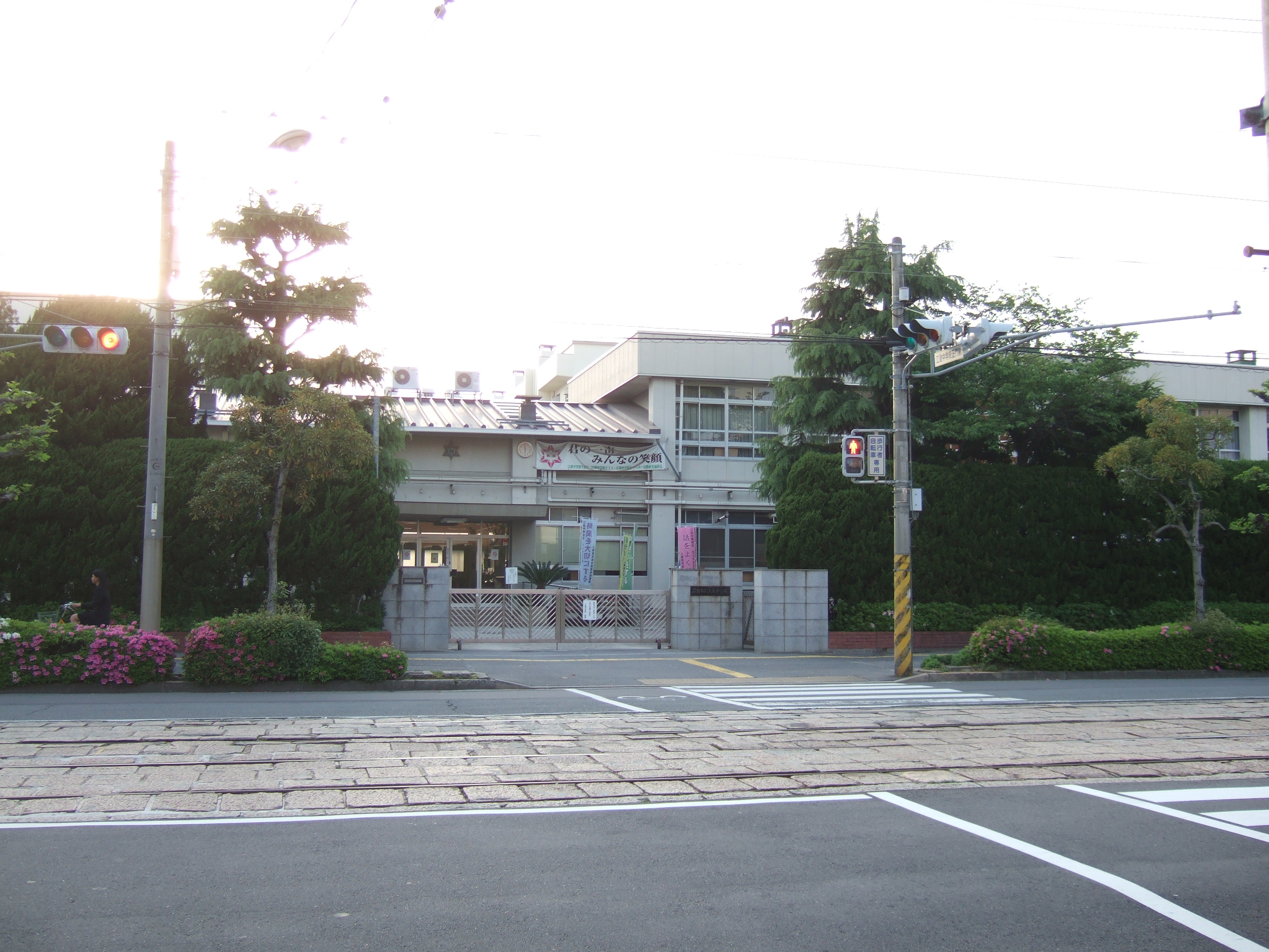 Hiroshima Municipal Eba Junior High School